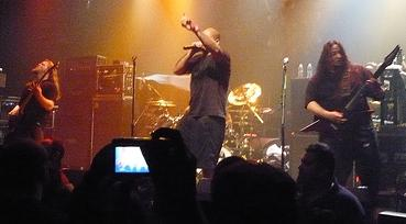 Metal band Divine Heresy at gramercy theater 11/15/2007